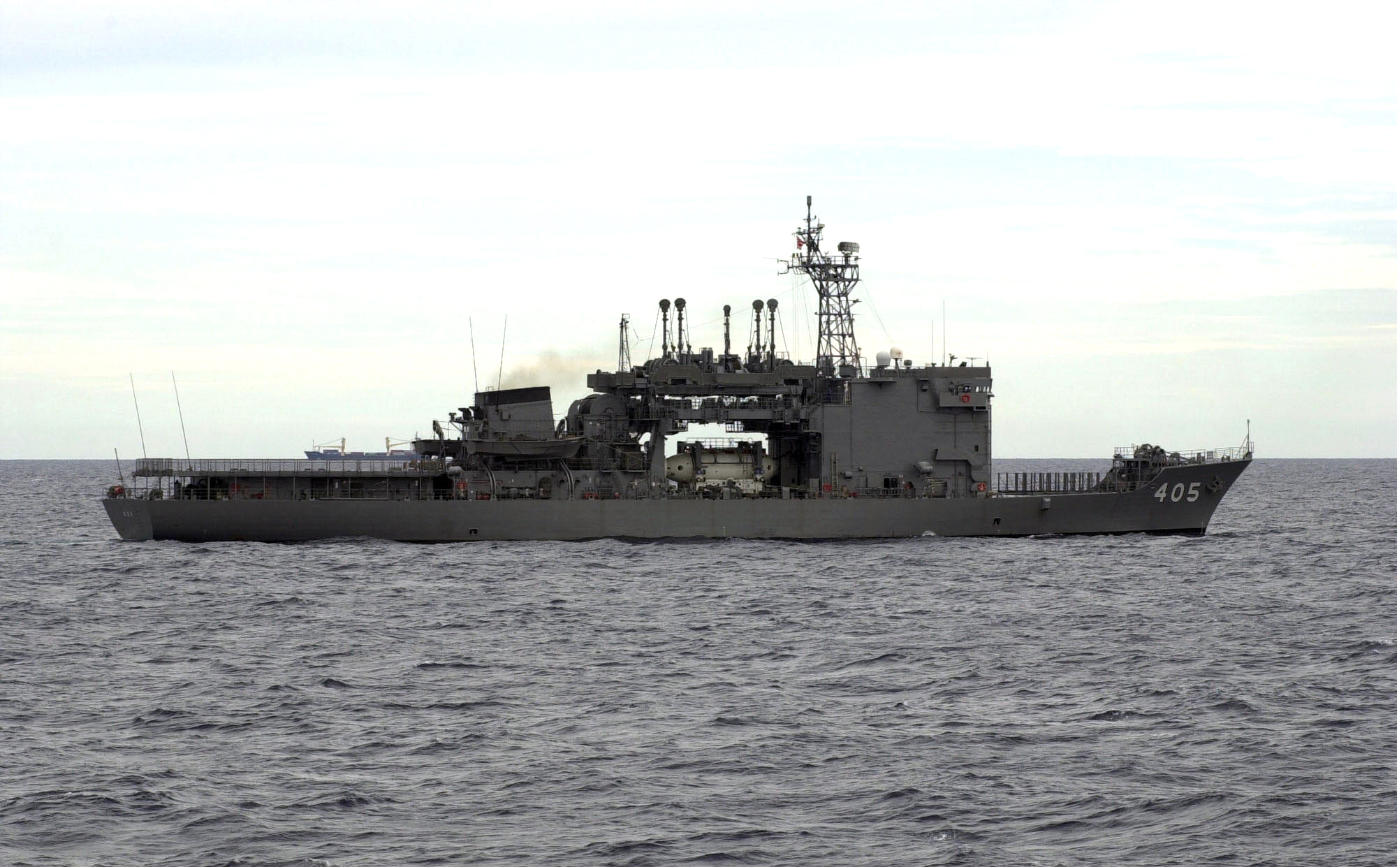 SOUTH CHINA SEA (October 6, 2000) -- The Japanese ship Chiyoda (ARS 405) at sea during "Exercise Pacific Reach 2000." Pacific Reach is the first multi-national submarine rescue exercise held in the Pacific region and includes 600 personnel, four submarines, four surface support ships and other submarine rescue systems from the Japanese Maritime Self Defense Force, the Republic of Korea Navy, the U.S. Navy and the Republic of Singapore Navy. U.S. Navy Photo by Senior Chief Photographer's Mate Terry Cosgrove. (RELEASED)